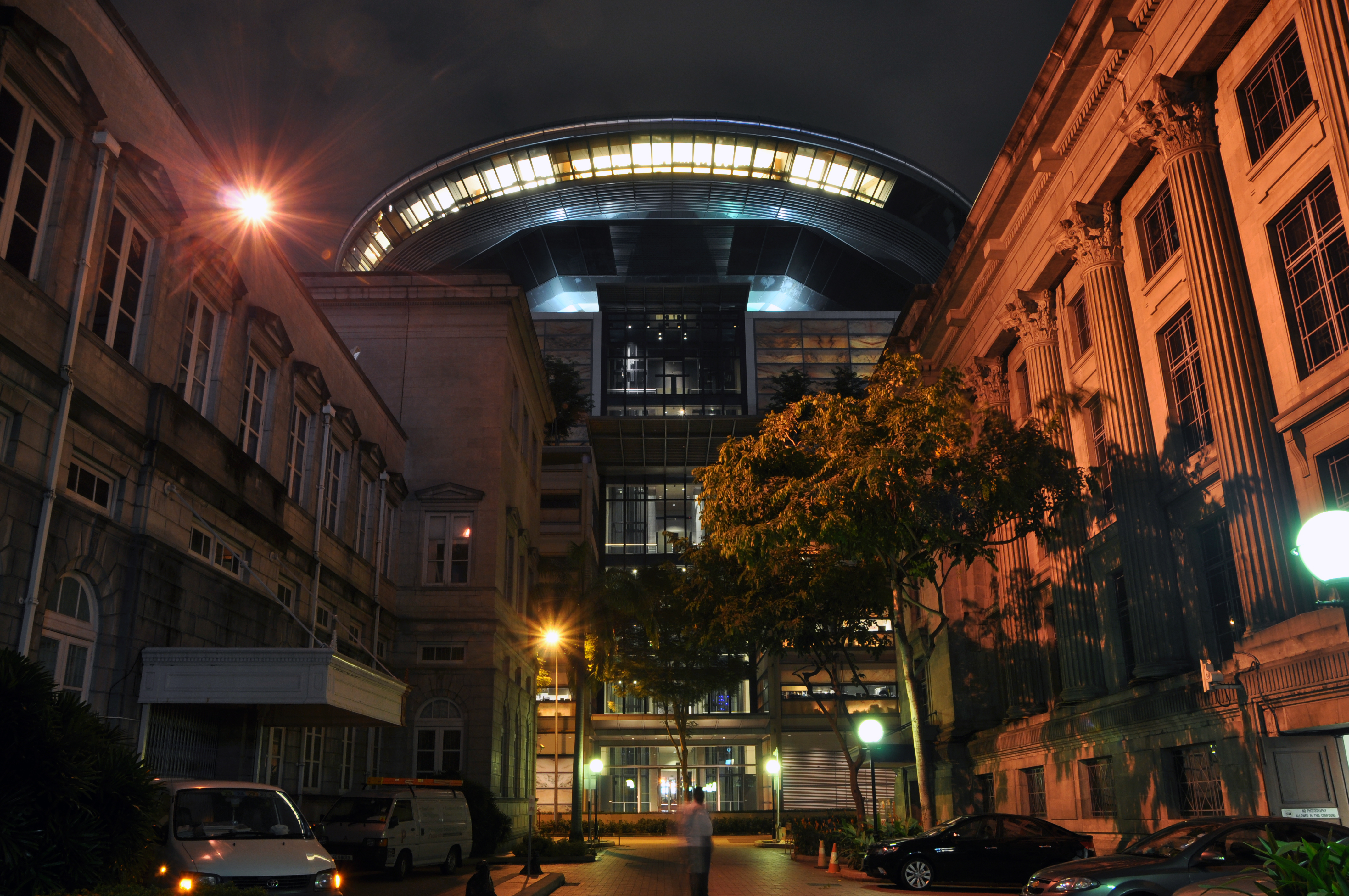 A view of the Supreme Court of Singapore viewed from the lane between the Old Supreme Court Building on the left and City Hall on the right.